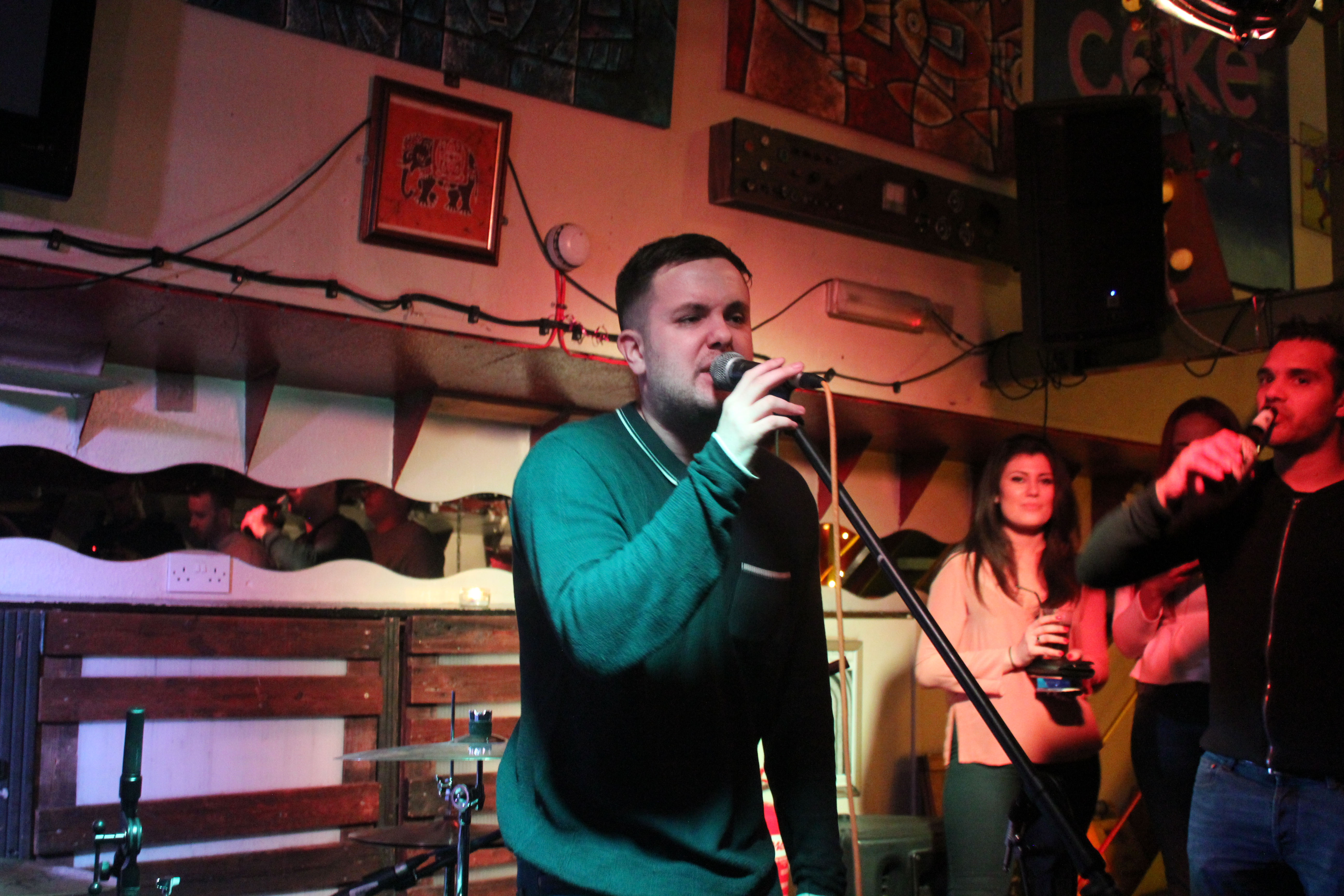 Sketchman performing at Tamesis Dock